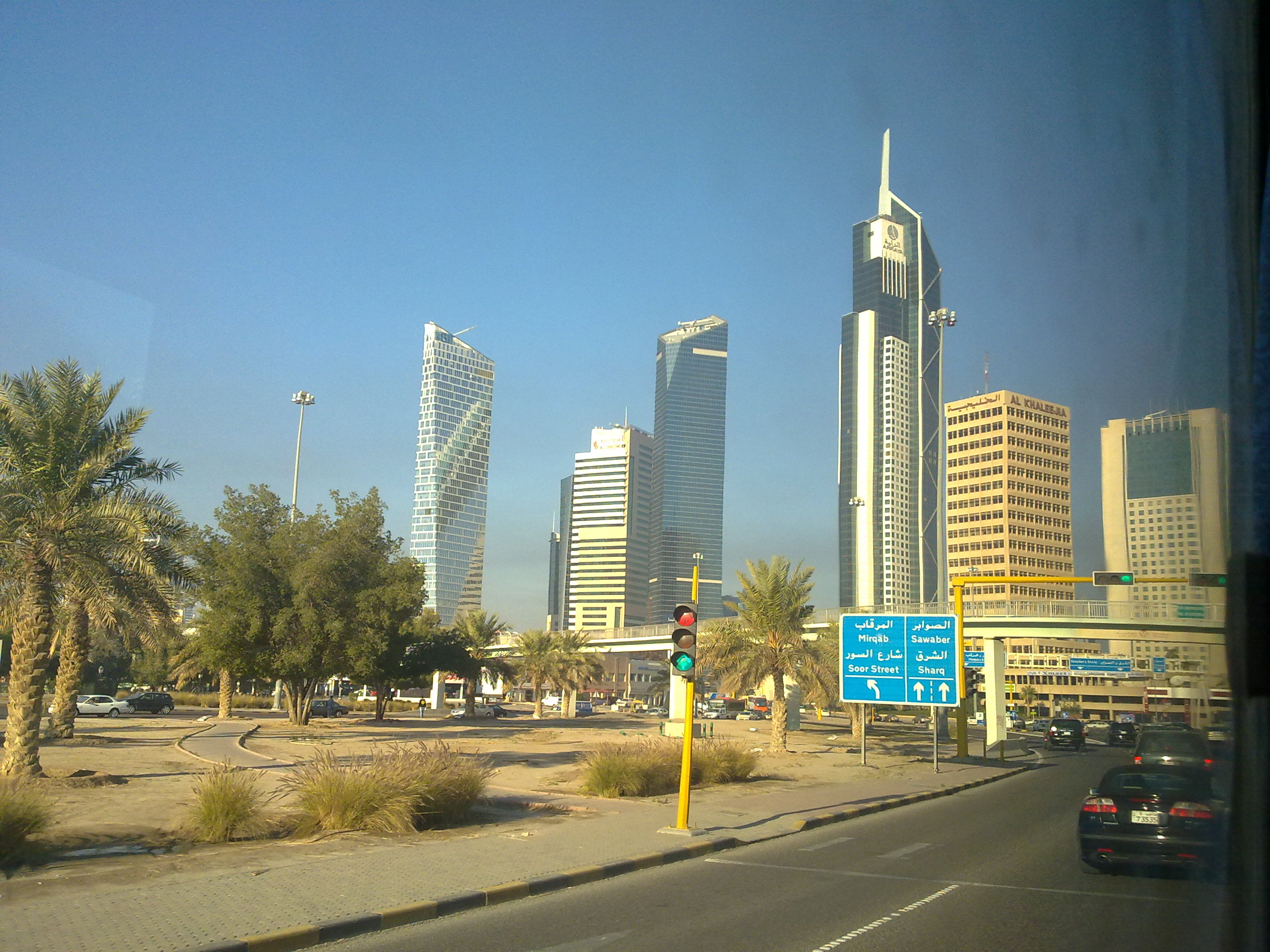 This media file is uploaded with Malayalam loves Wikimedia event - 3. kuwait